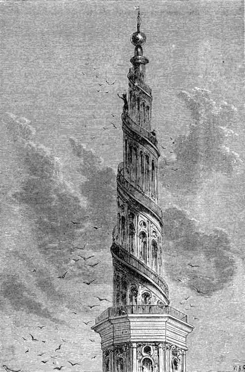 An ilustration from the novel "Journey to the Center of the Earth" by Jules Verne painted by Édouard Riou.